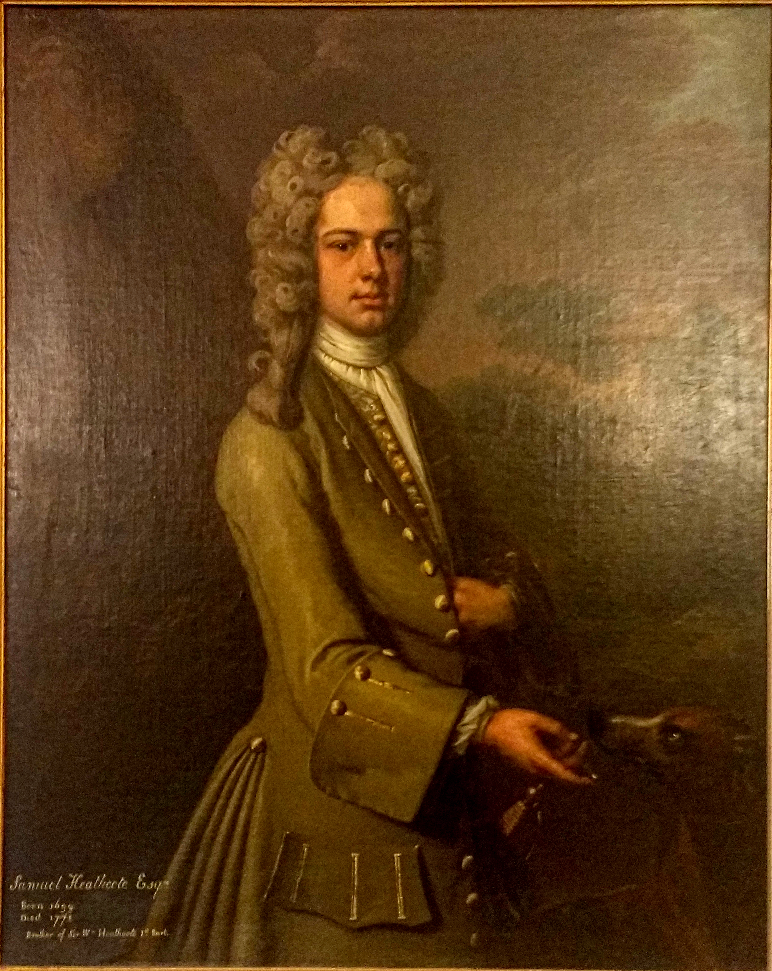 Samuel Heathcote (1699–1775), English politician. Found at IBM Hursley.